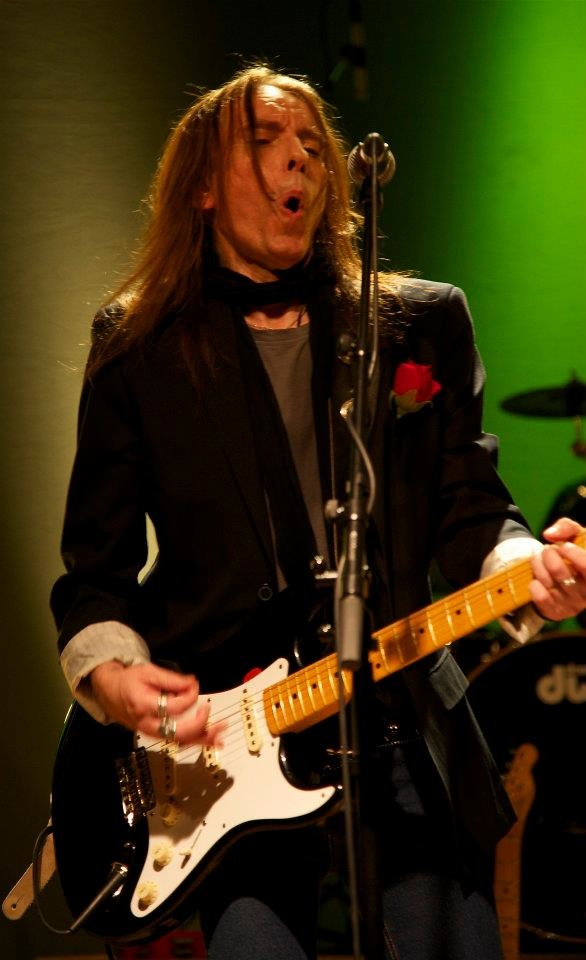 Swedish artist Dan Hylander at a live gig 2011